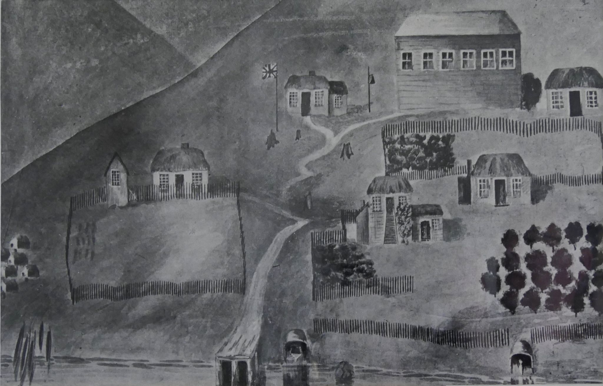 Māngungu Mission House, Far North District, Northland Region, North Island, New Zealand, after a sketch of Emma Hobbs, 10 years old daughter fo missionary John Hobbs (picture shows area of Māngungu Mission House before it was destroyed by a fire in 1st of September 1838)